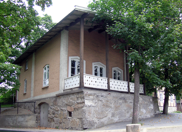 Heibergløkken, Sørligata 54, Oslo. Built 1847 as a home for professor Christen Heiberg. Architect: Possibly Johan Nebelong